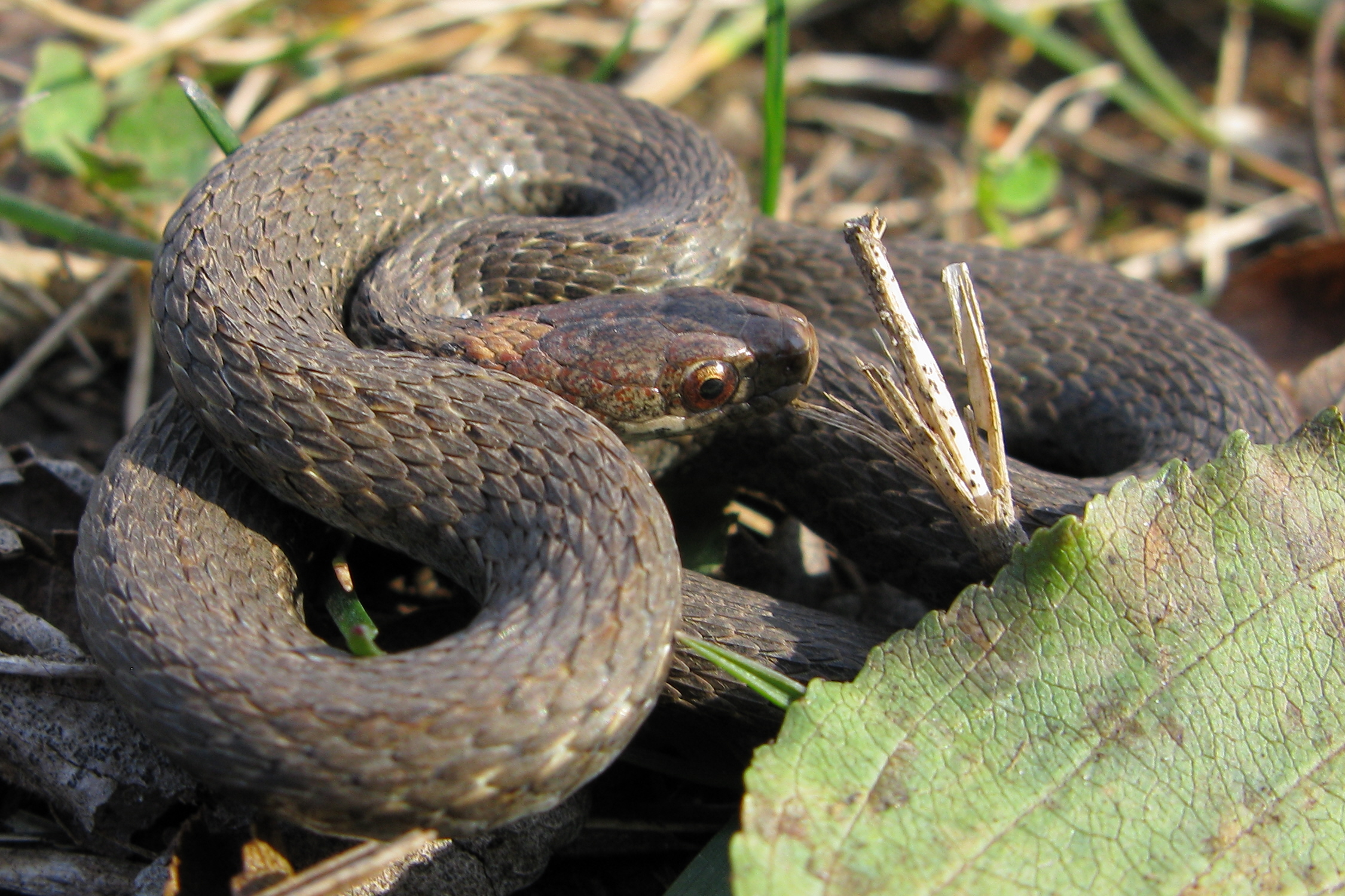 Redbelly Snake (Storeria occipitomaculata occipitomaculata) on a cool sunny day (10°C) near the Ottawa River in the city of Ottawa.